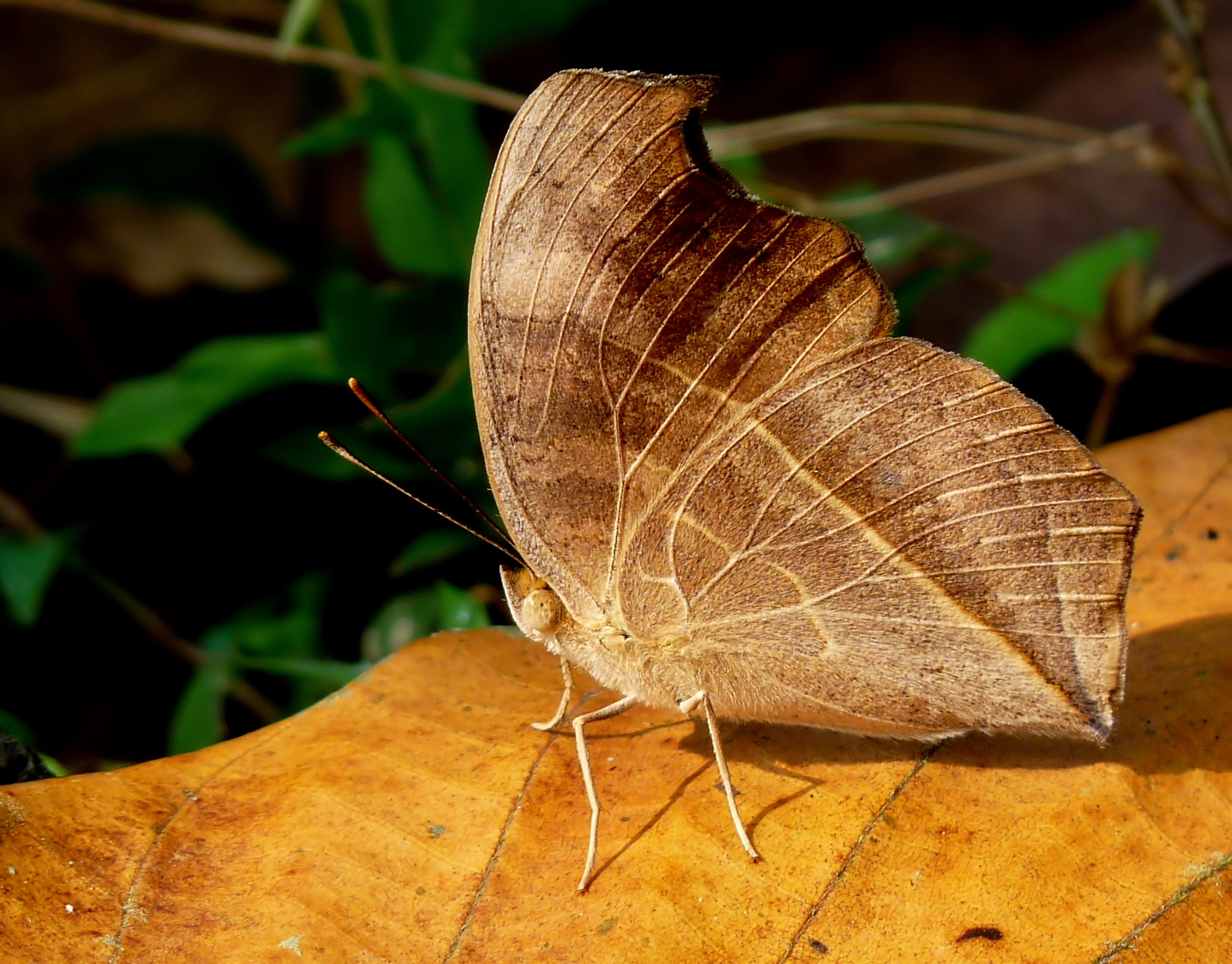 Junonia almana DSF (Under Side) The Peacock Pansy (Junonia almana) is a species of nymphalid butterfly found in South Asia. It exists in two distinct adult forms, which differ chiefly in the patterns on the underside of the wings; the dry-season form has few markings, while the wet-season form has additional eyespots and lines. Taken at Kadavoor, Kerala, India